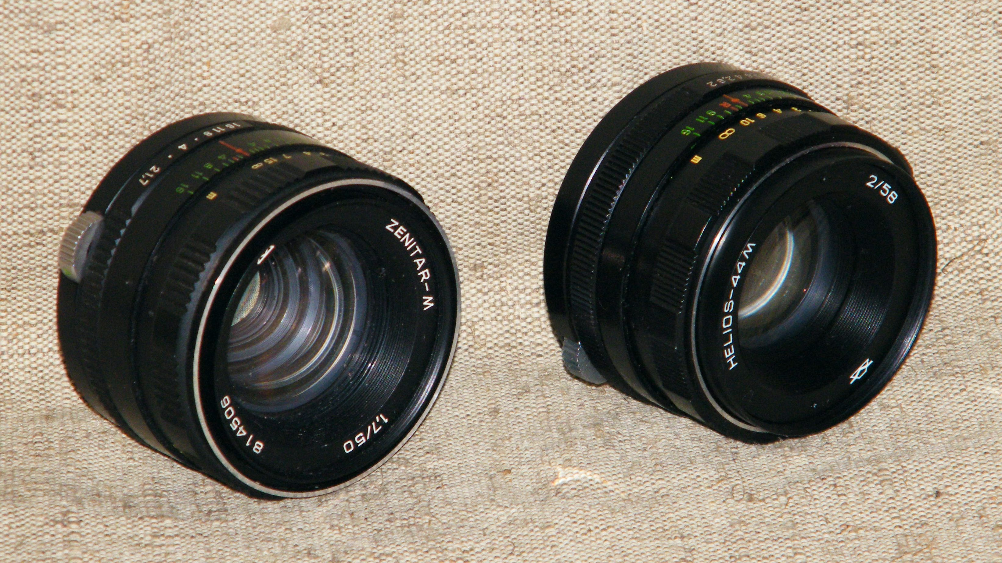 Зенитар-М и Гелиос-44М